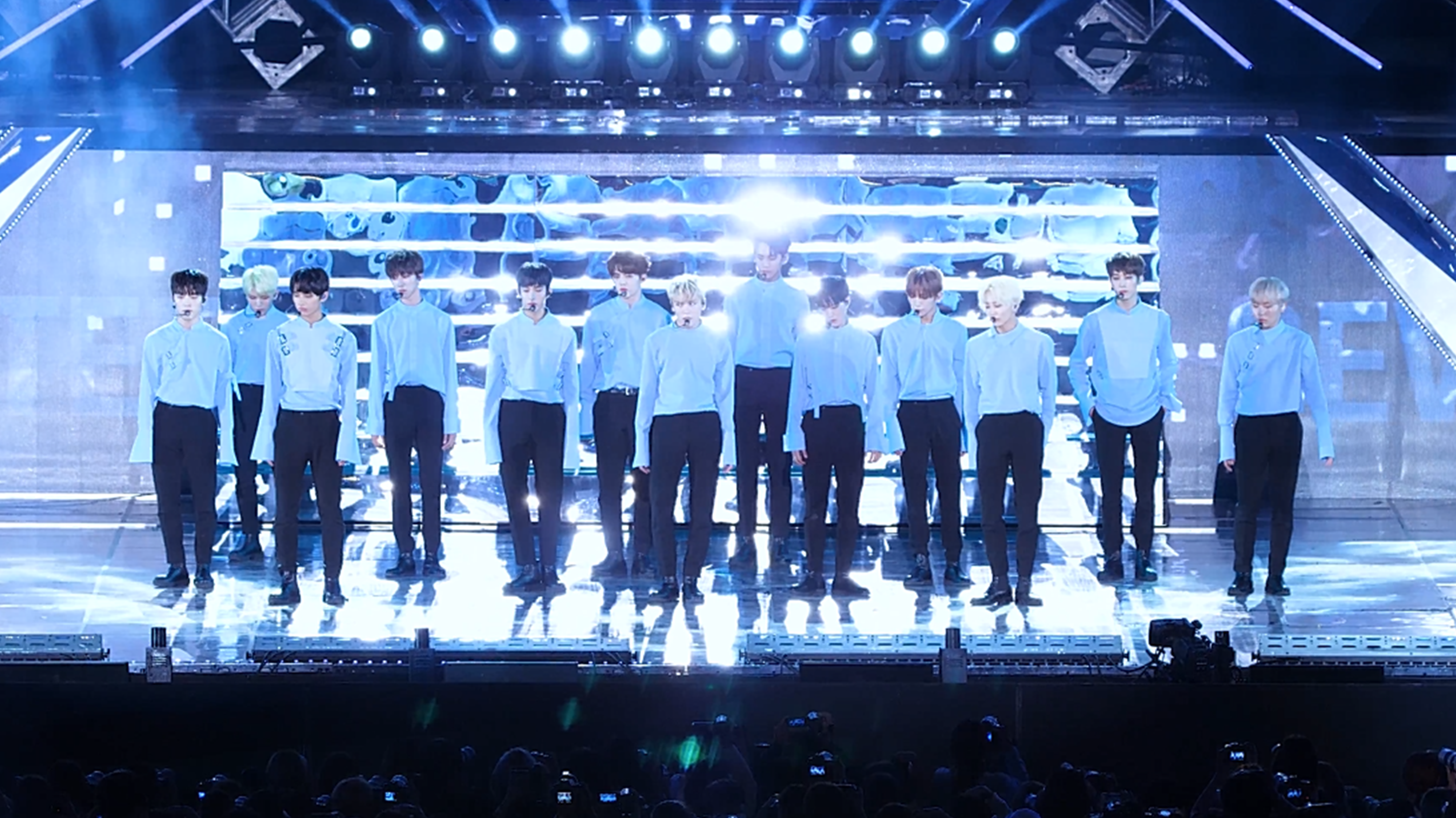 Seventeen performing "Don't Wanna Cry" during the Dream Concert on June 3, 2017.